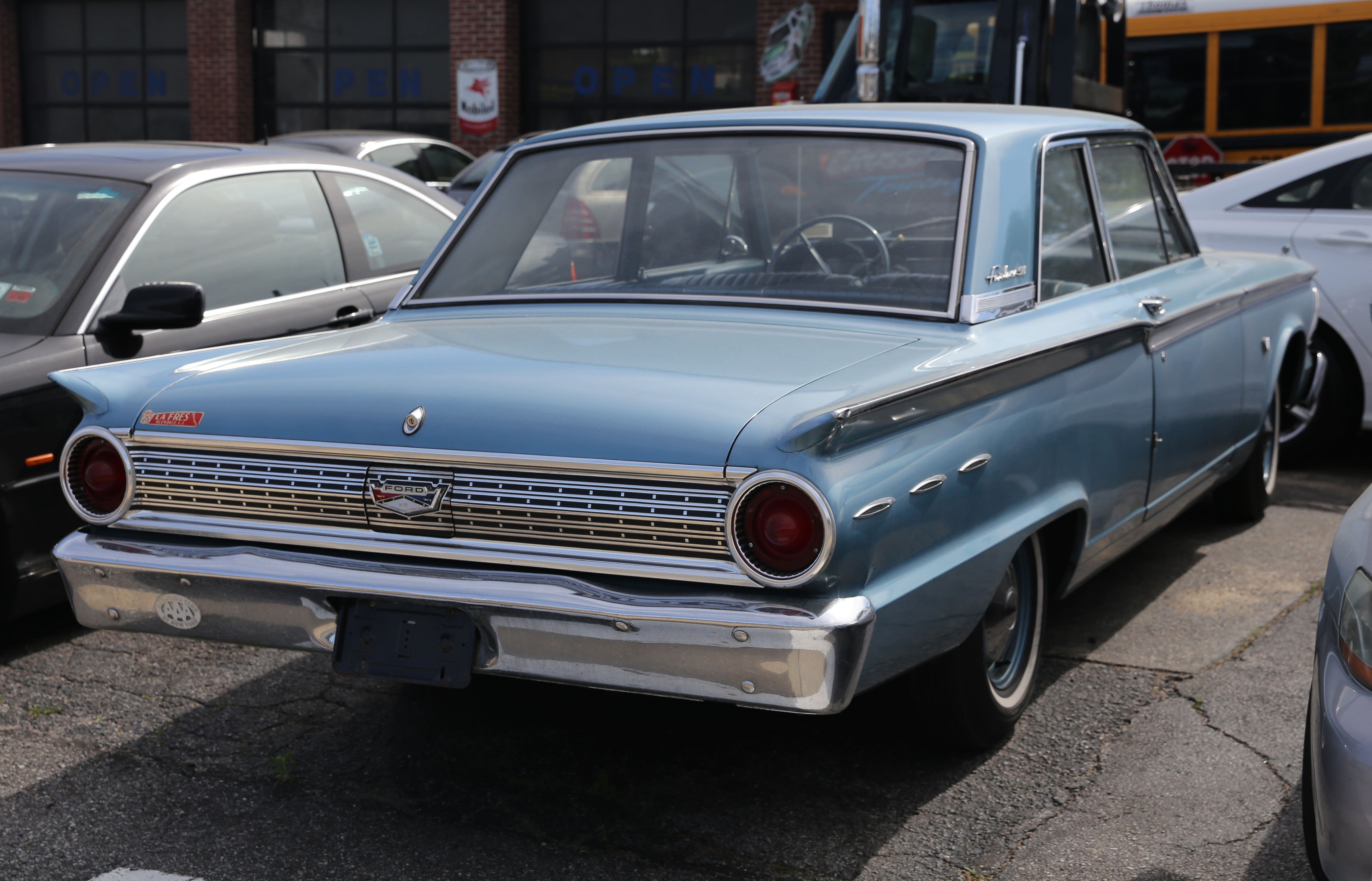 A 1962 Ford Fairlane 500 2-door Club Sedan, with the short-lived 221 Windsor V8 engine and assembled in Dearborn, MI.